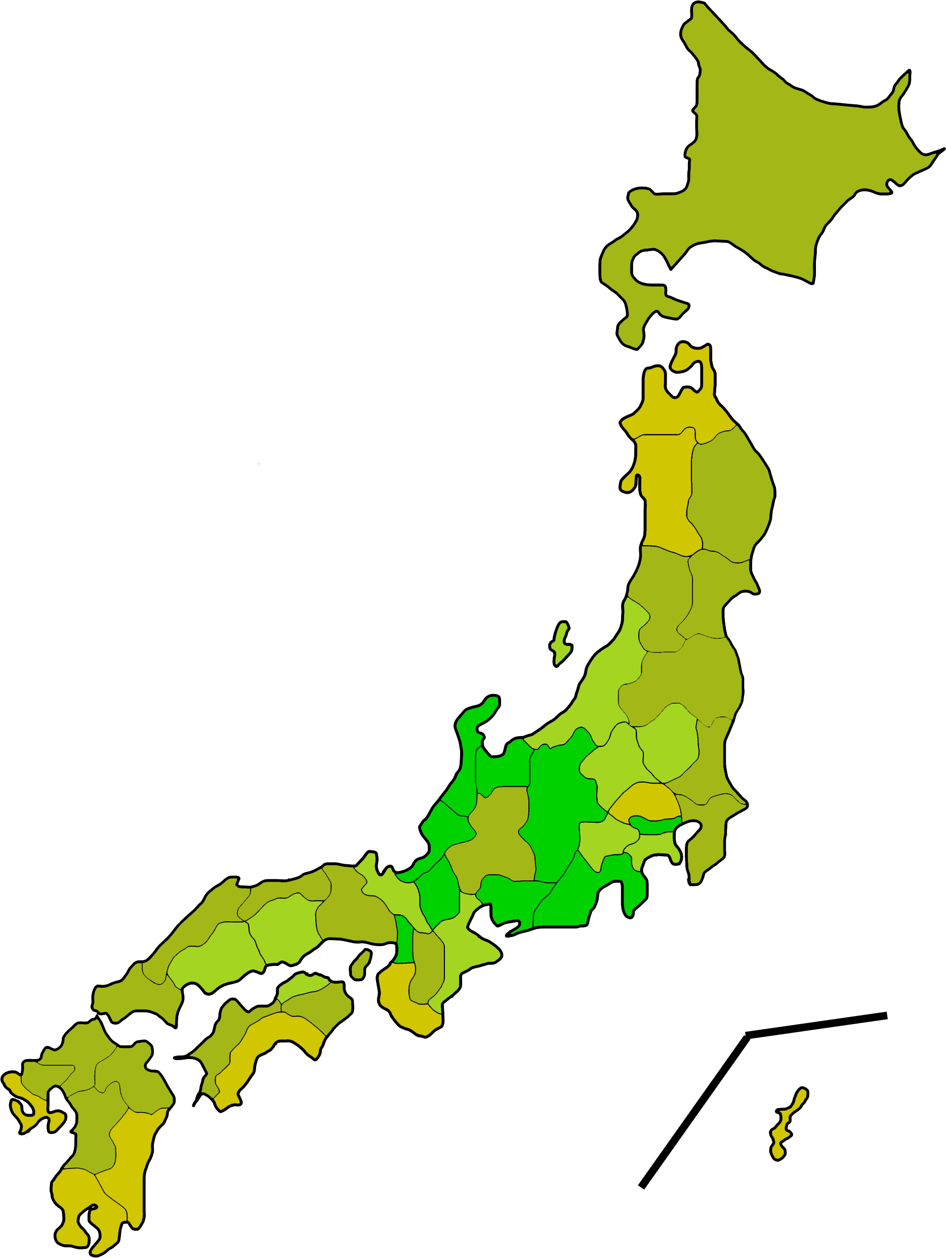 Map of Japanese prefectures with colors indicating ranking according to 2000 Human Development Index